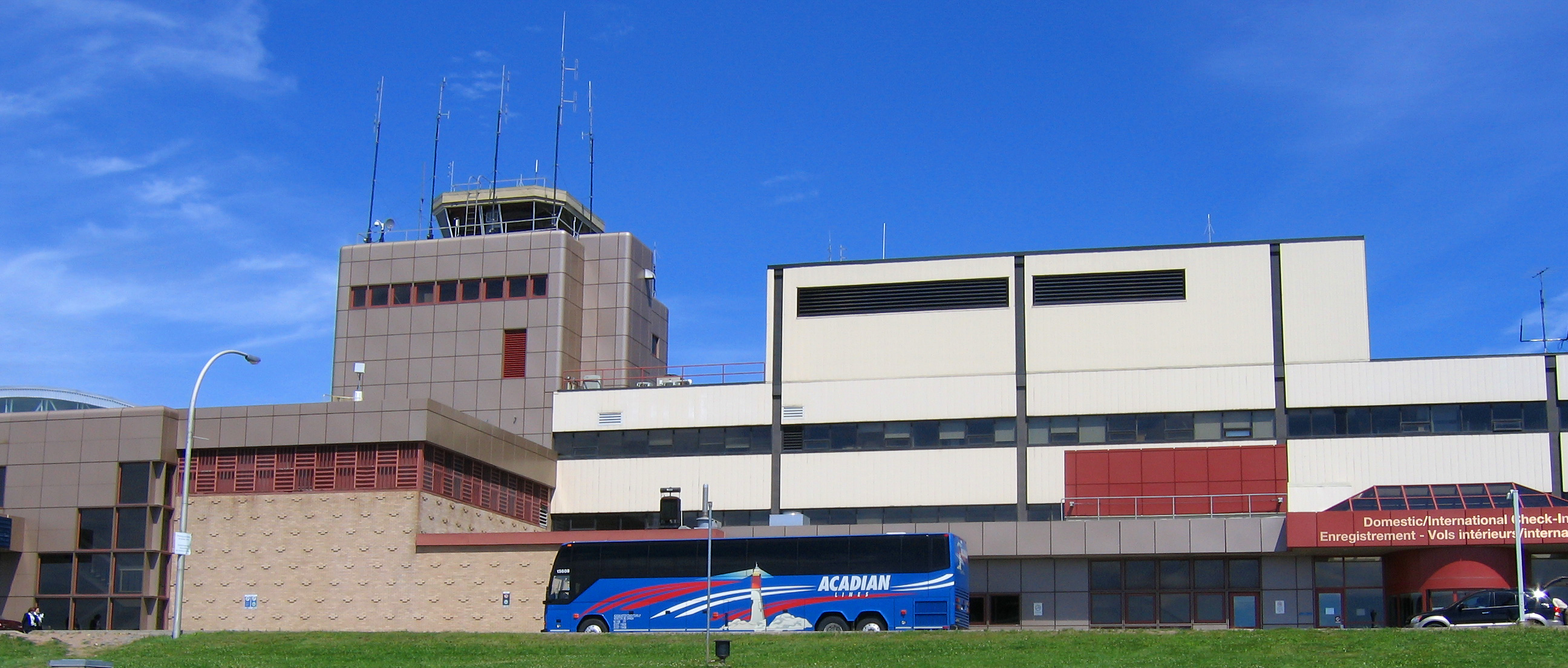 Part of entrance, Halifax International Airport